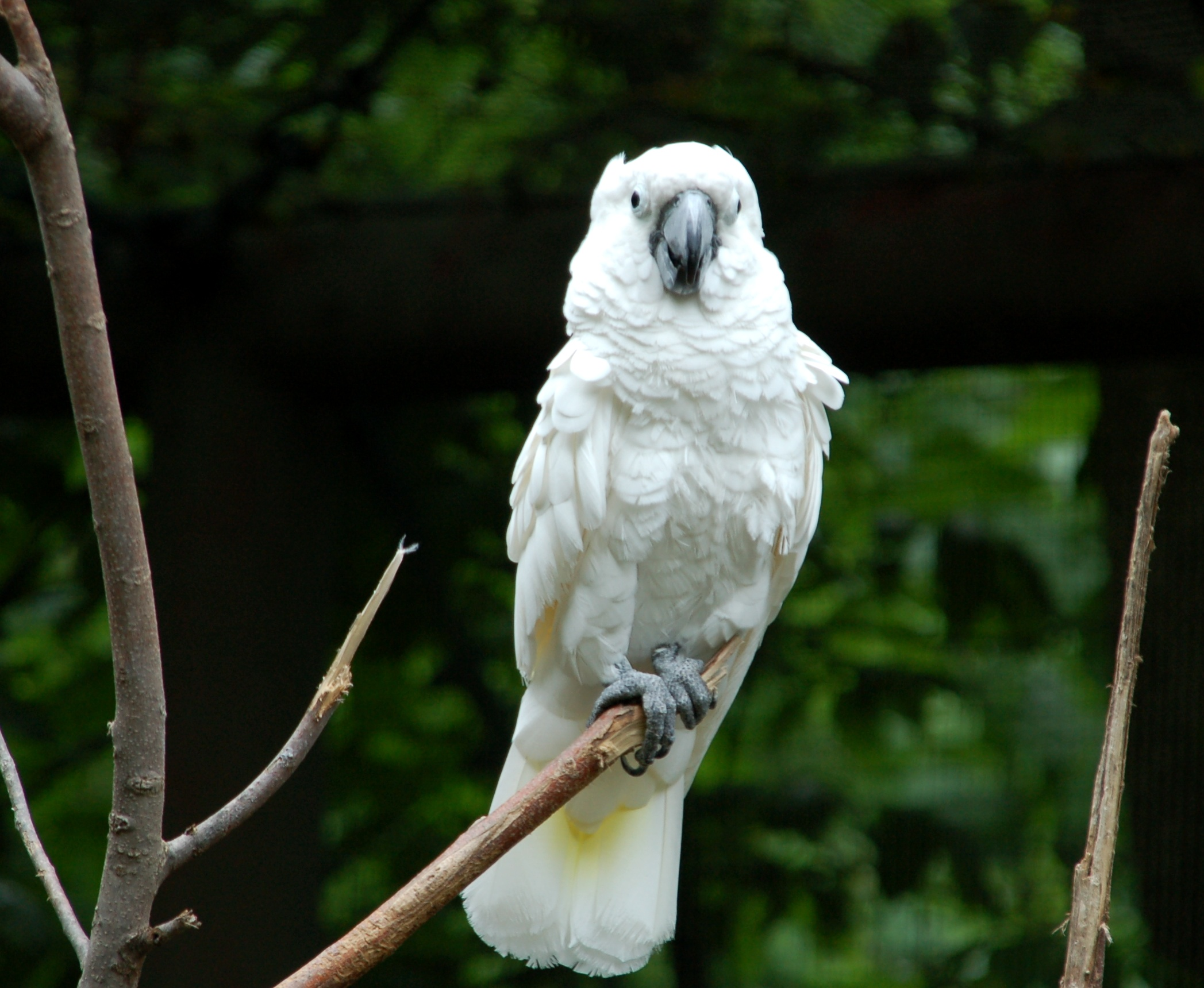 Umbrella Cockatoo (also known as the White Cockatoo) at Kansas City Zoo, Kansas City, Missouri, USA.